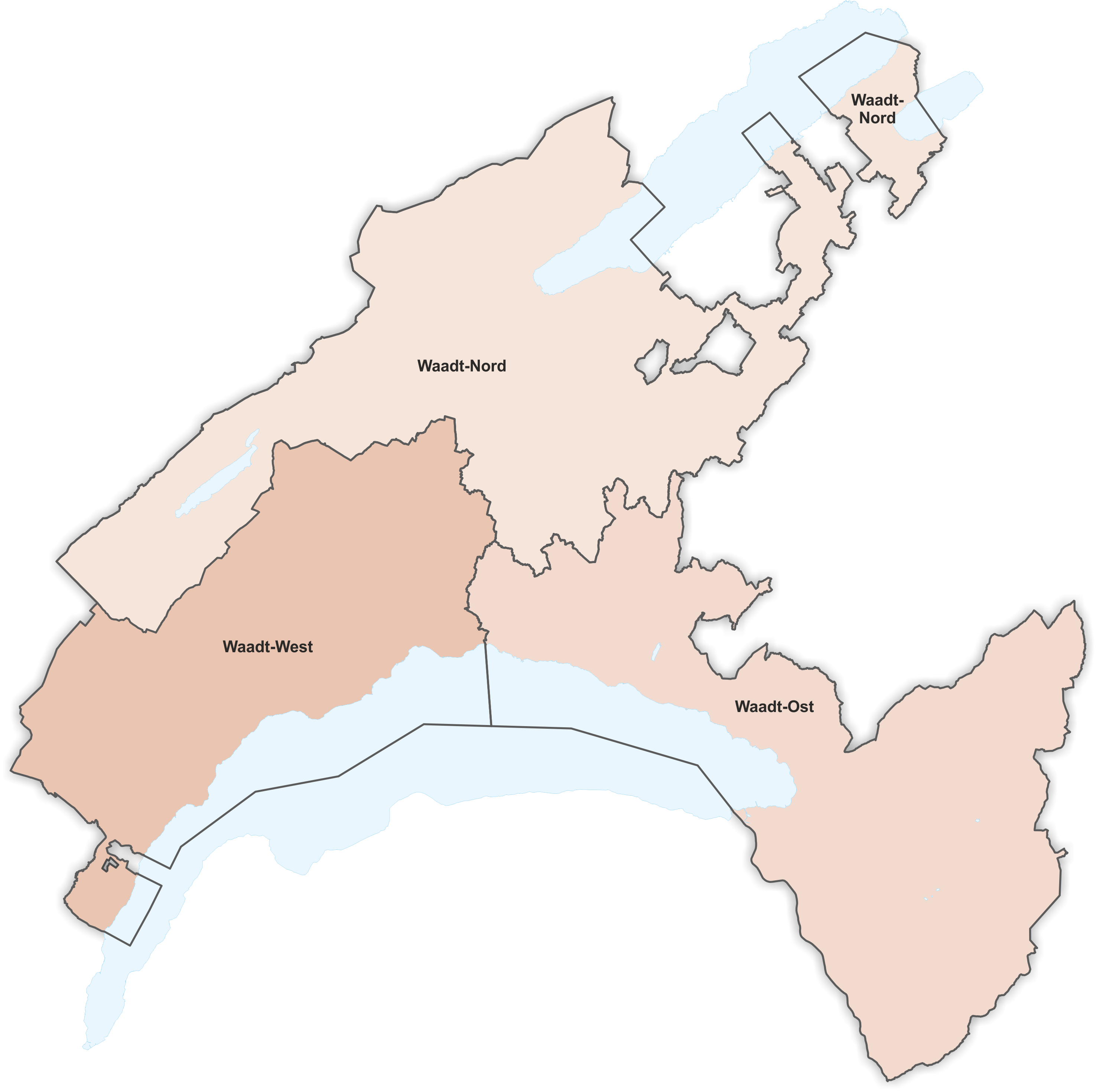 National council constituencies in the canton of Vaud from 1911 to 1917